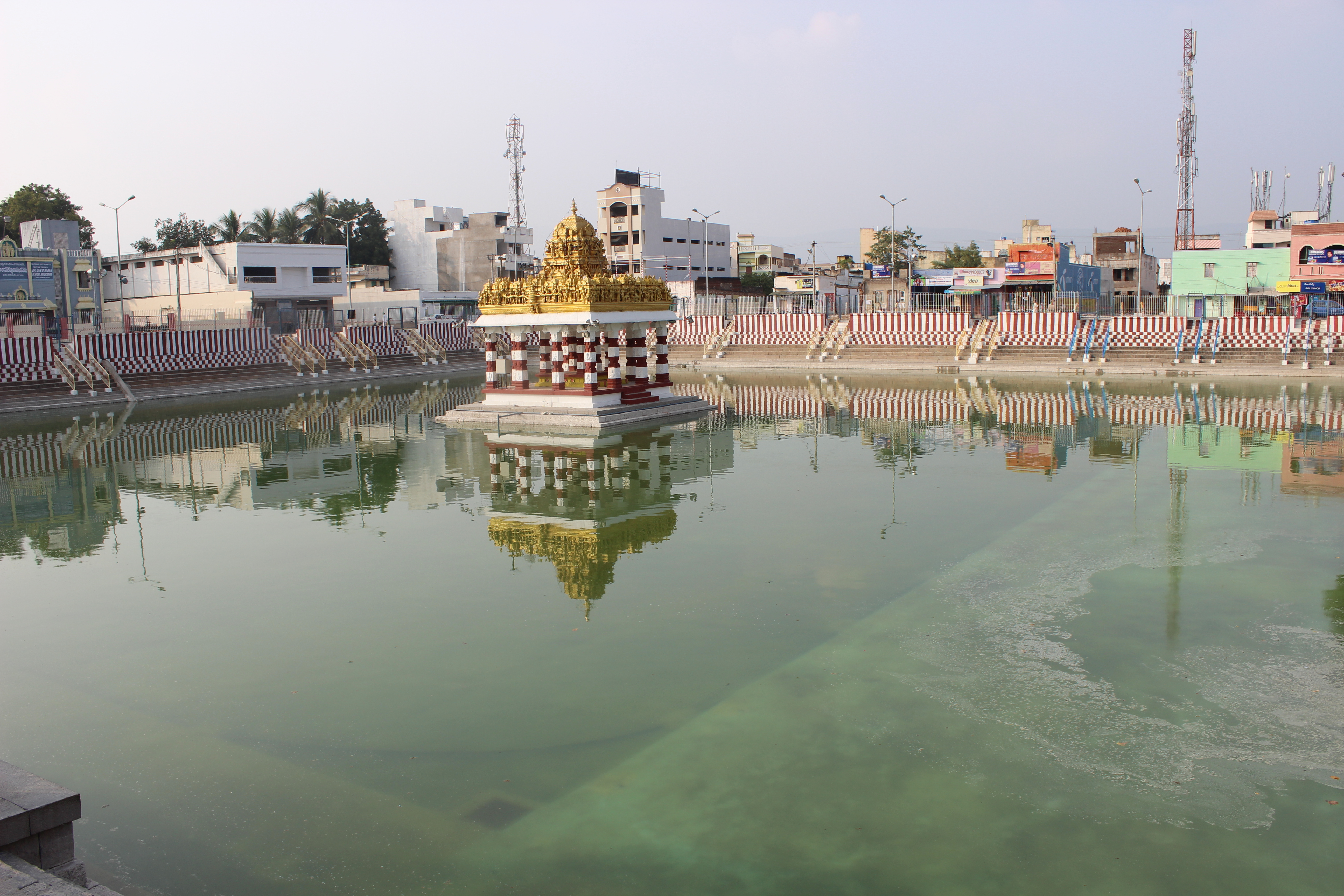 Thiruchanur